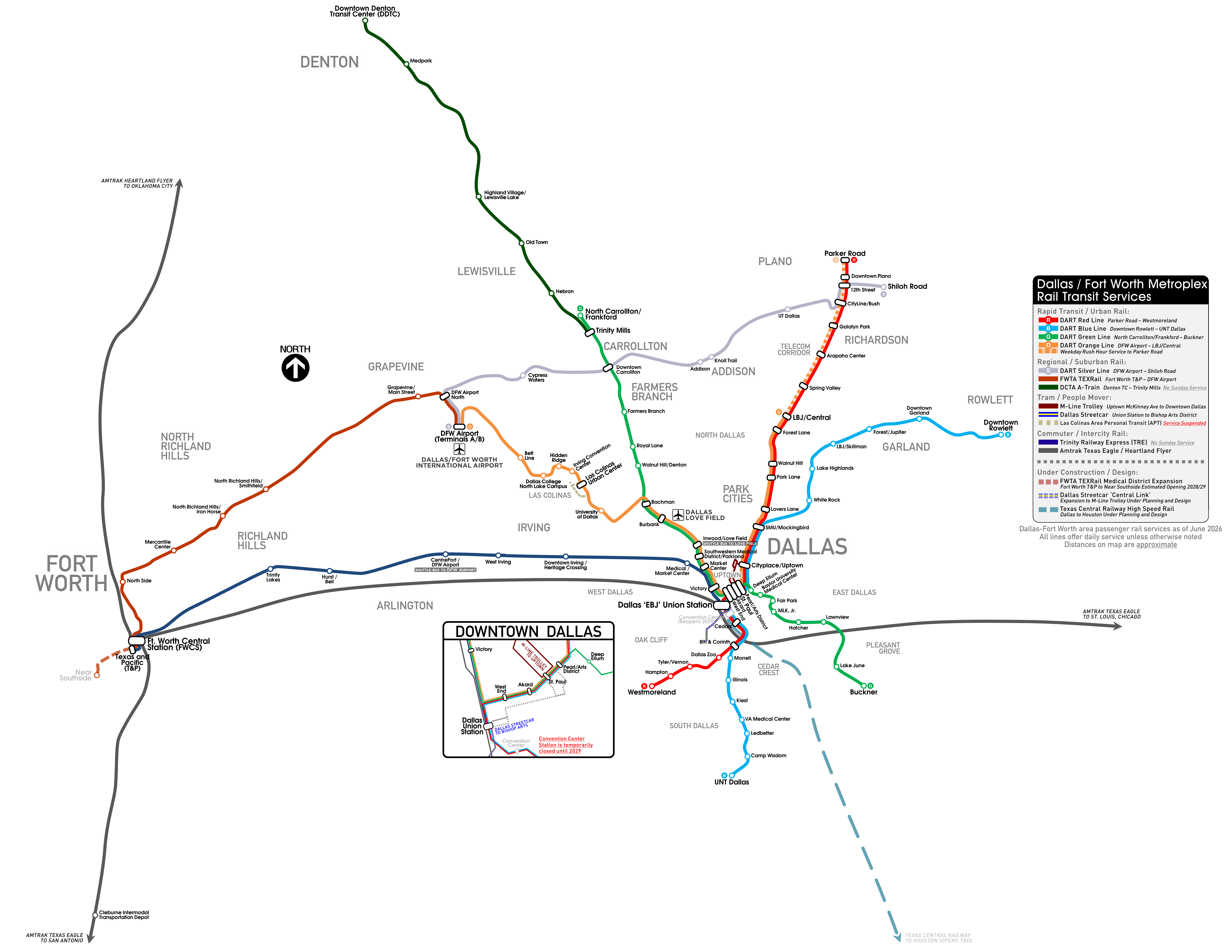 Map of all public rail transit serving the Dallas-Fort Worth Metroplex within Texas, United States. Current as of January 2019.